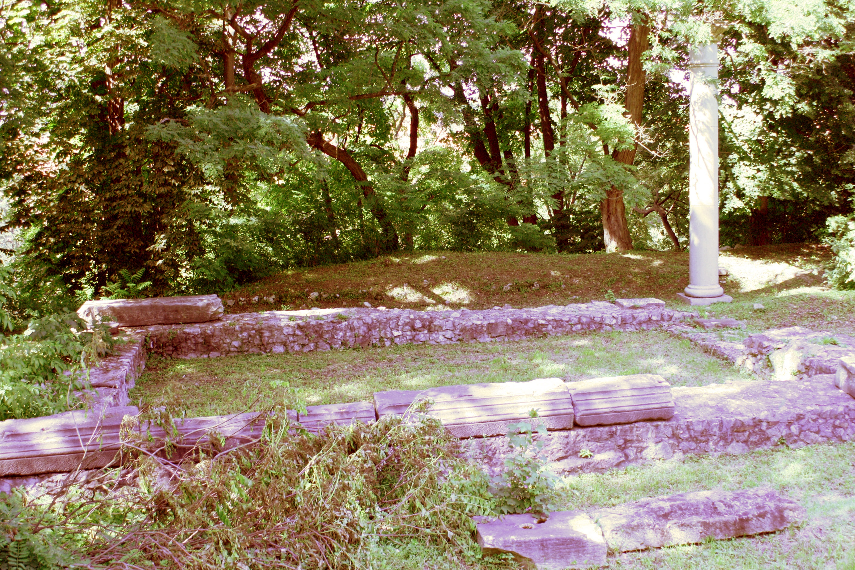 Temple of Hercules in Celje.